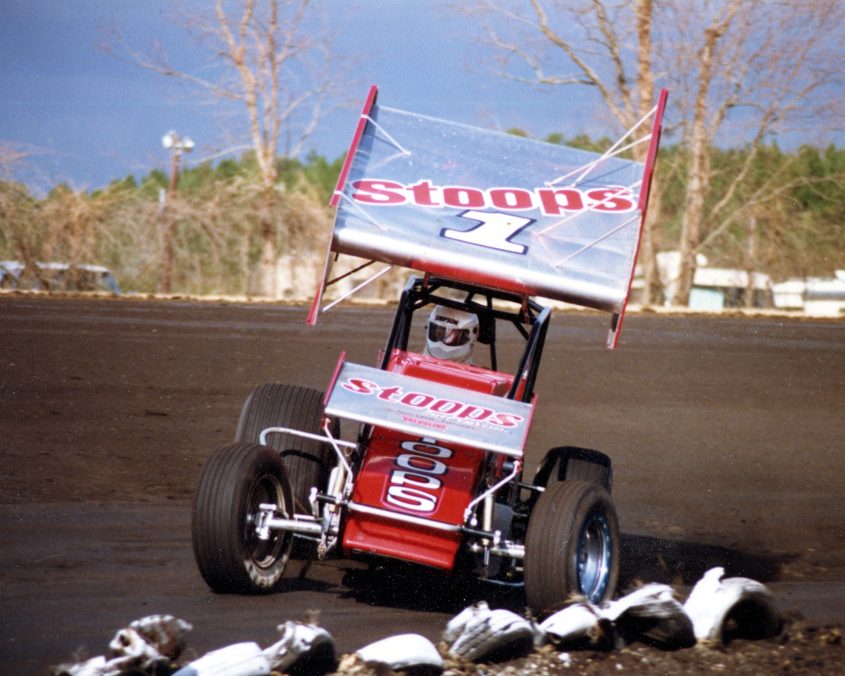 Steve Butler driving the Stoops sprinter at Jacksonville, FL. This race kicked-off the traditional winter series of sprint car races in Florida.